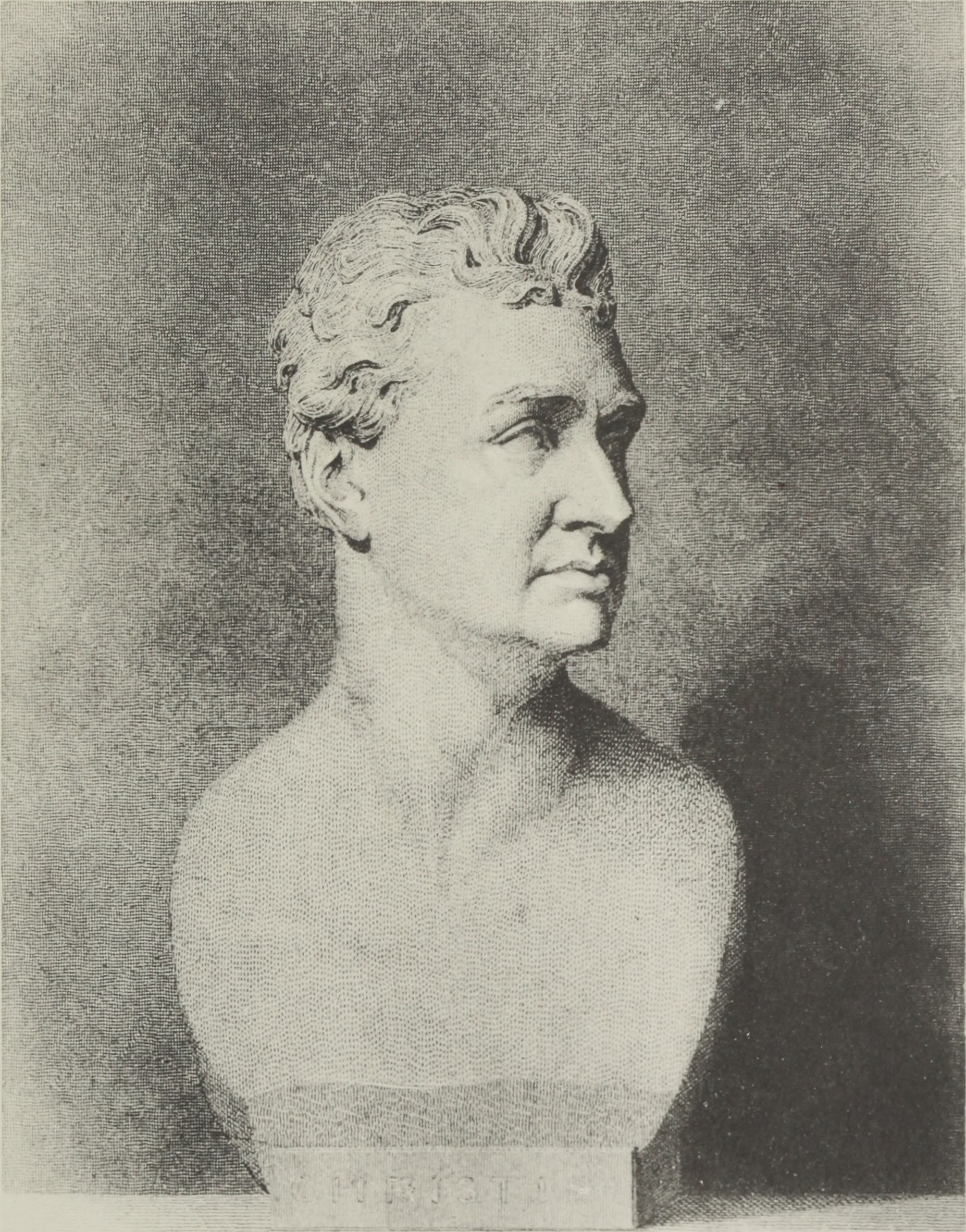 Bust of James Christie the Younger (1773–1831), auctioneer and antiquary, by Harry Behnes, according to the book. The ODNB reports this engraving was produced by Henry Corbould (1787–1844) or Robert Graves (1798–1873). The Royal Academy of Art records the original bust was created in 1826 by William Behnes (1795–1864).